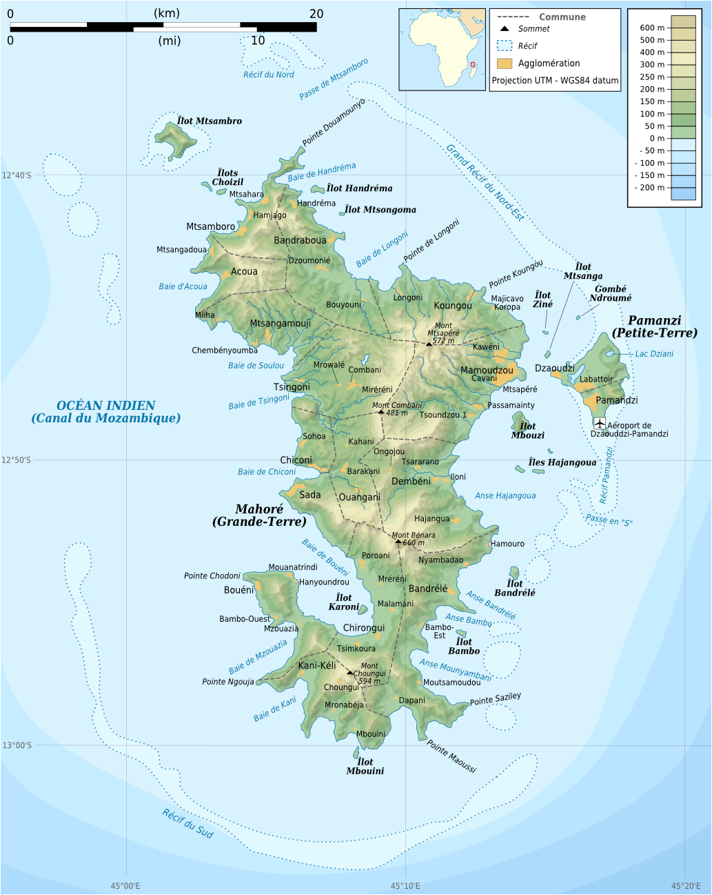 Topographic map of Mayotte in French. Use the SVG version for translations and alterations, then update this one.